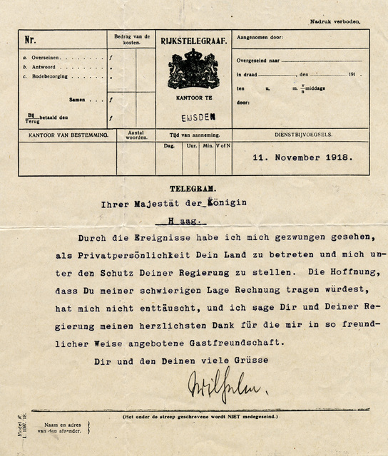 Telegram from ex-Emperor Wilhelm II of Germany, sent to Queen Wilhelmina of the Netherlands, from the German-Dutch bordertown of Eijsden. In the telegram Wilhelm II thanks the Dutch government for granting him asylum in the Netherlands. The translated text: "The events have forced me to enter your country as a private person and put myself under the protection of your government. The hope, that you would take my difficult situation into account, has not disappointed me, and I offer to you and your Government my sincere thanks for so kindly offering me hospitality. Best regards to you and yours. (signed) Wilhelm"